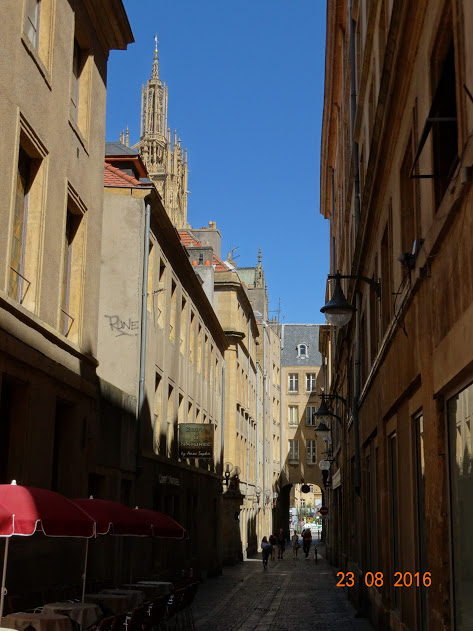 Metz street view